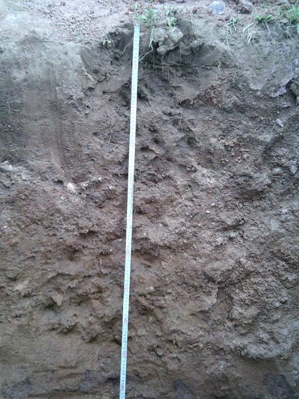 Haplic Fluvisol in Sinkata Ethiopia profile